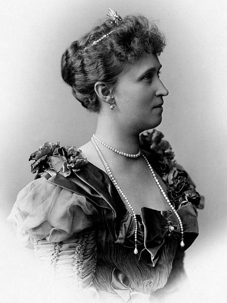 Princess Irene von Hessen-Darmstadt (1866-1953) wife of Heinrich of Prussia